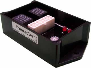 A picture of a digital freeze stat which is used in geothermal heat pumps to prevent damage to heat exchangers.